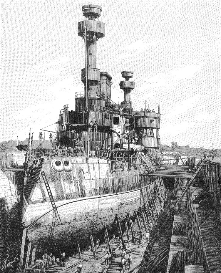 French battleship Hoche